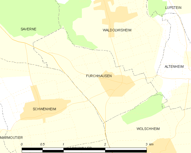 Map of French municipality